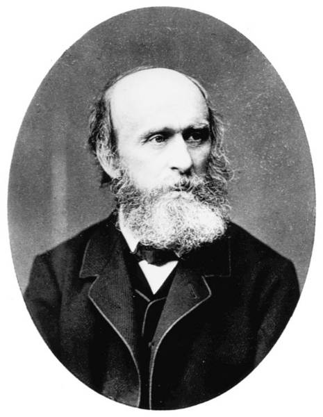 Portrait of Rudolf Eitelberger, from H.H. Aurenhammer, "150 Jahre Kunstgeschichte an der Universität Wien."